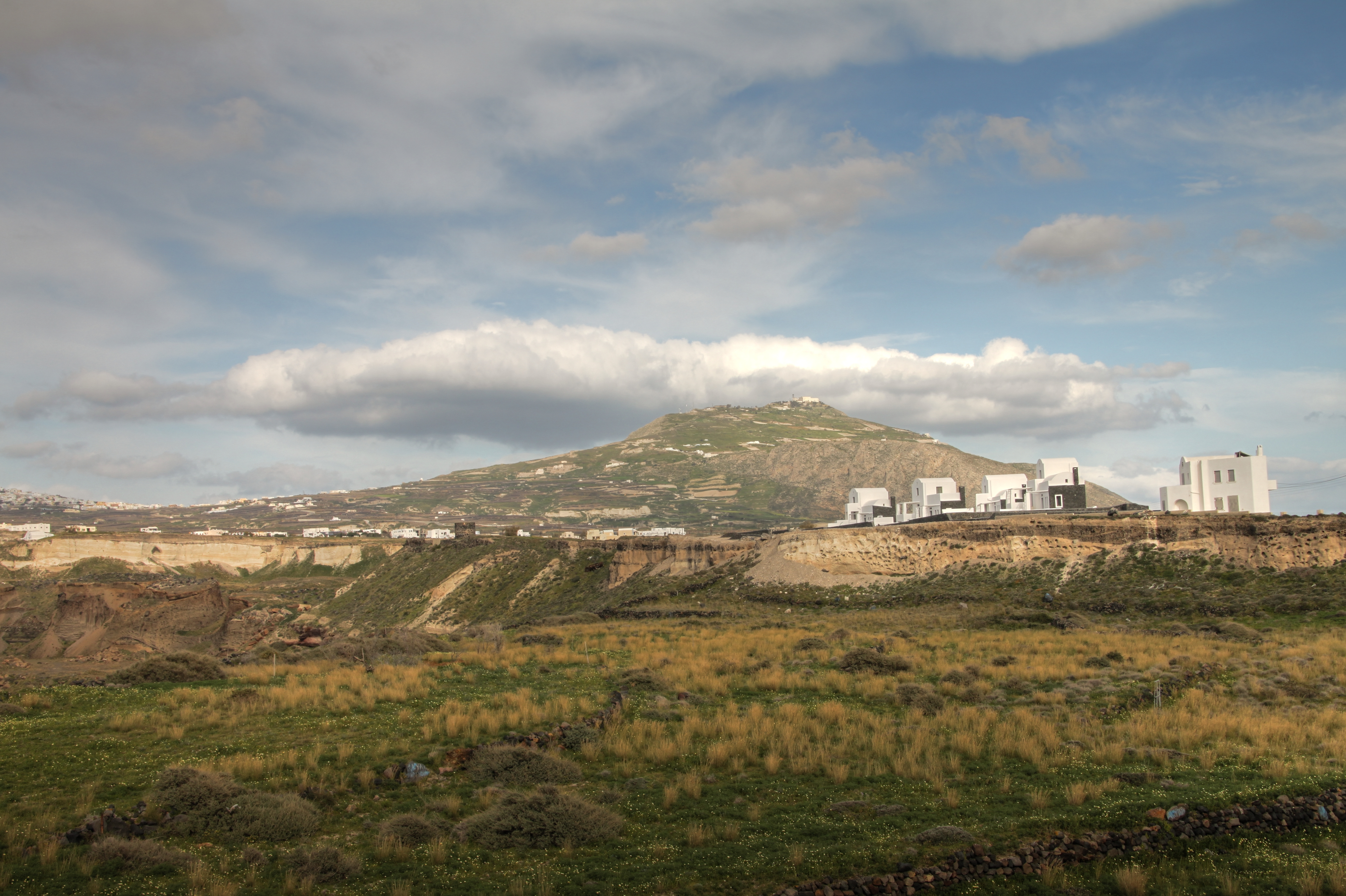 View of Prophet Elias Mountain of Santorini from Akrotiri... Prophet Elias